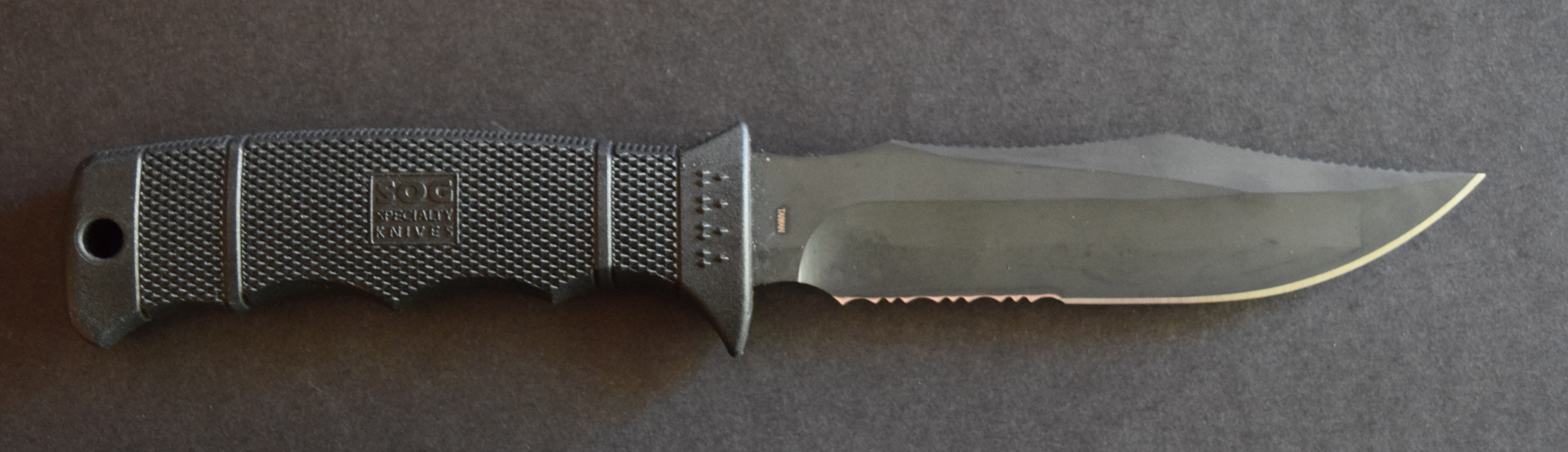 Seal Pup Elite made by SOG Knives of Washington State